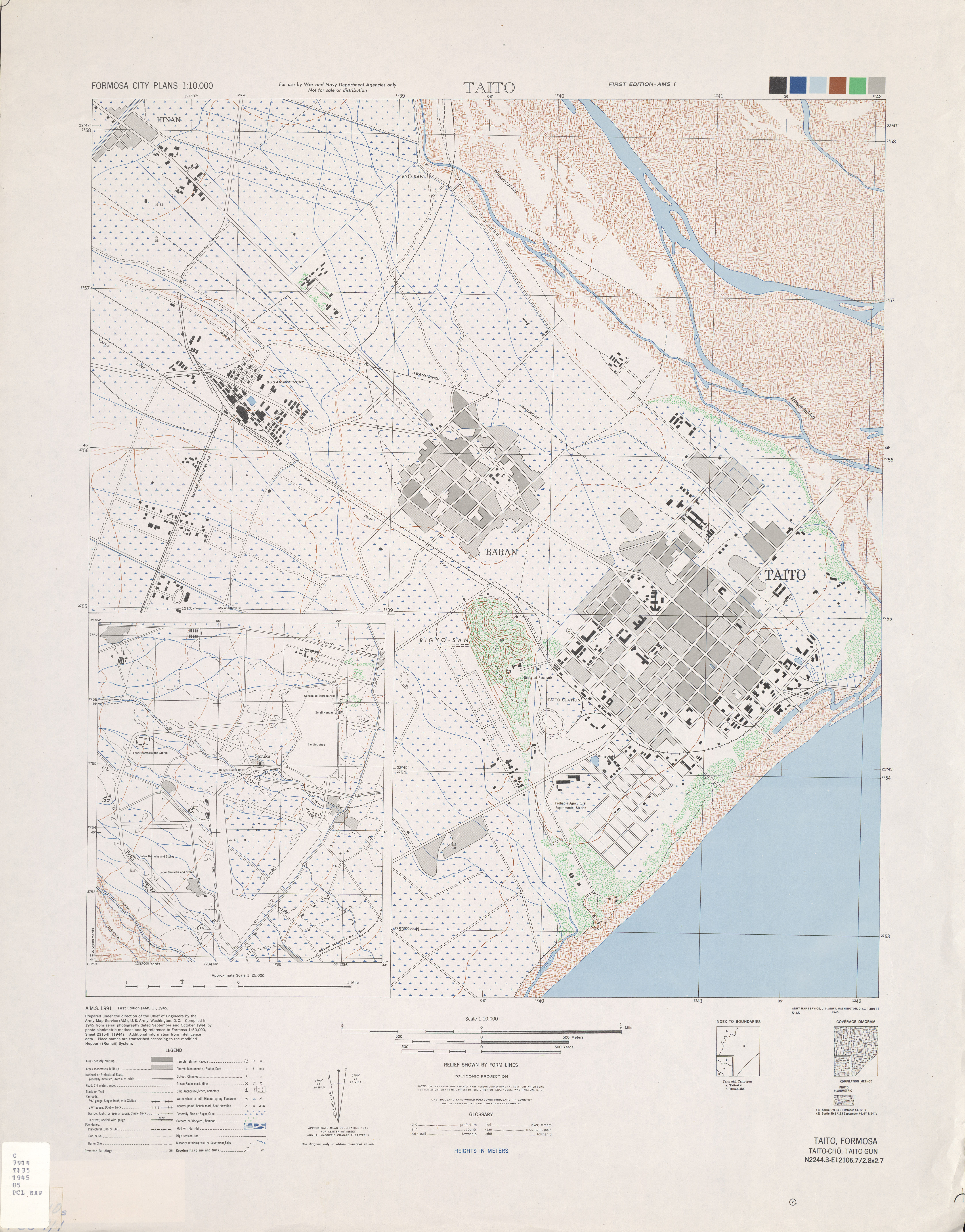 Taito 1:10,000 1945